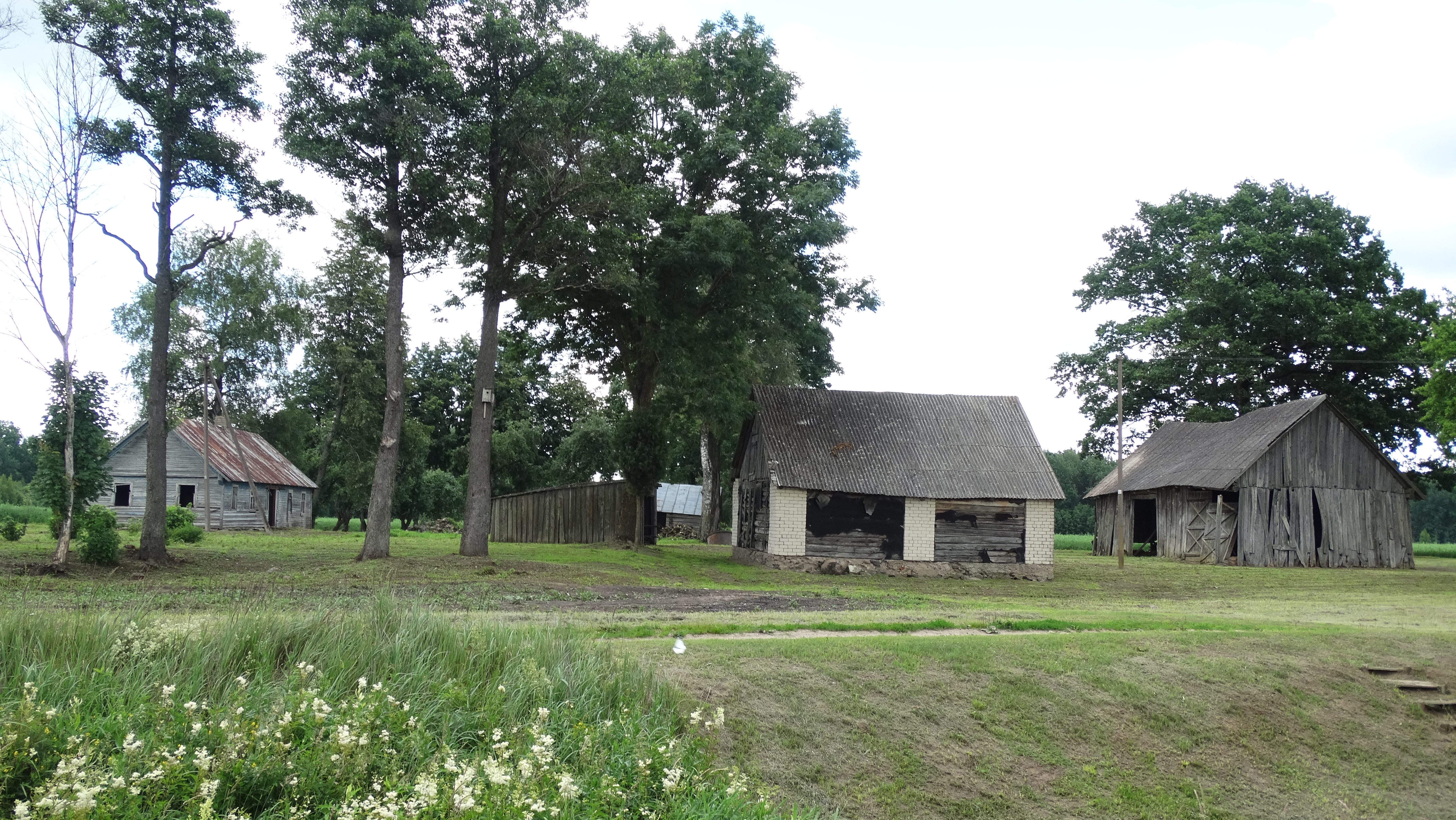 Dirvonai, Pasvalys district, Lithuania